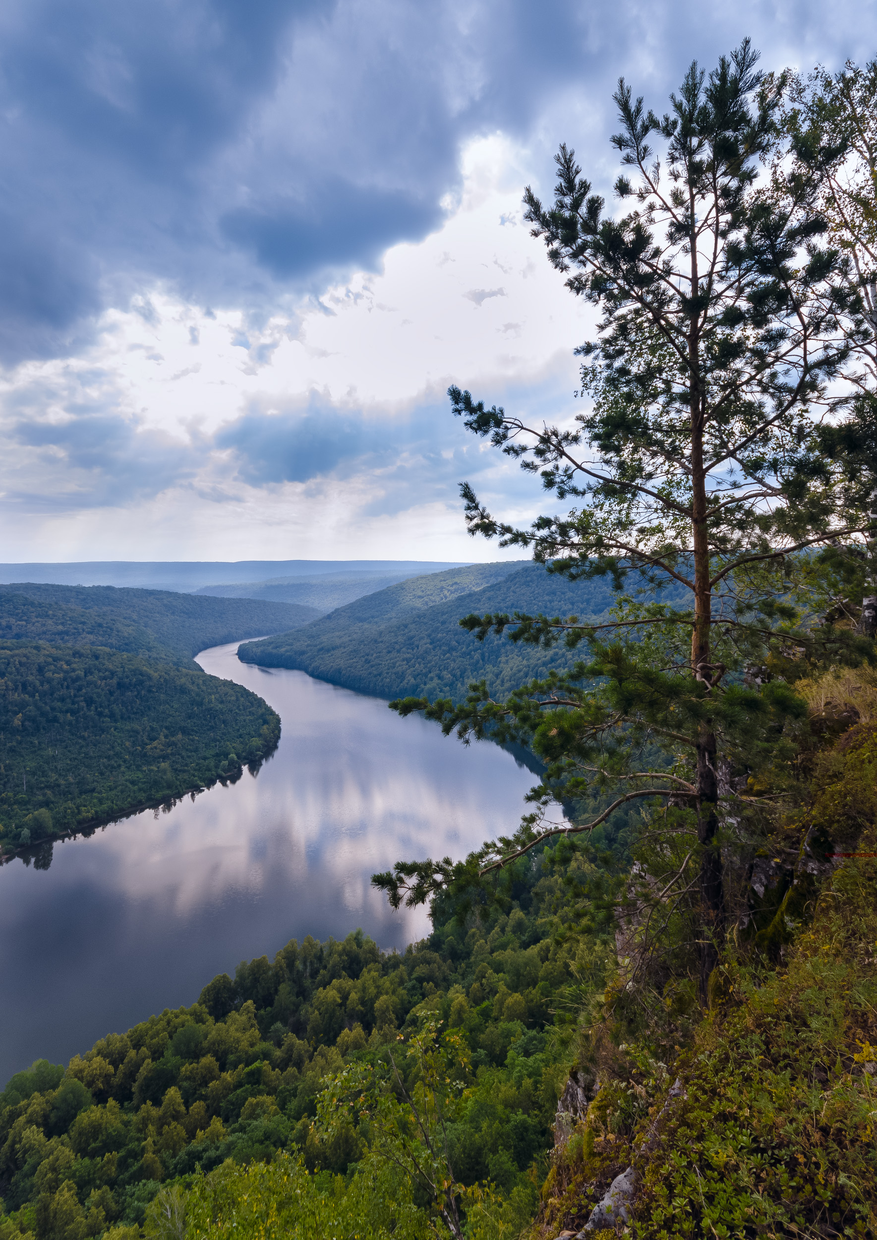 Nugush River in Meleuzovsky District, Bashkortostan, Russia.